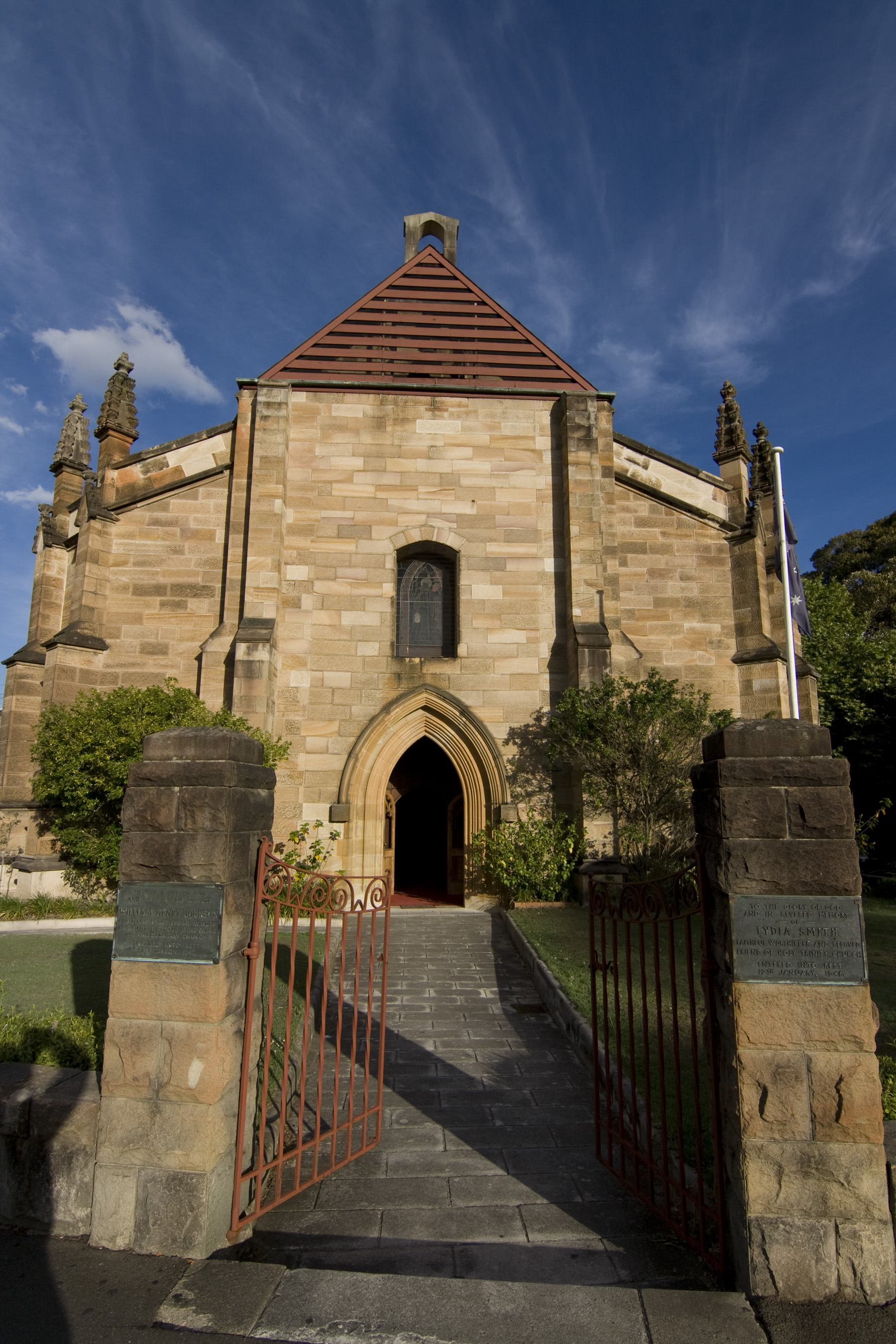 Dawes Point NSW 2000, Australia